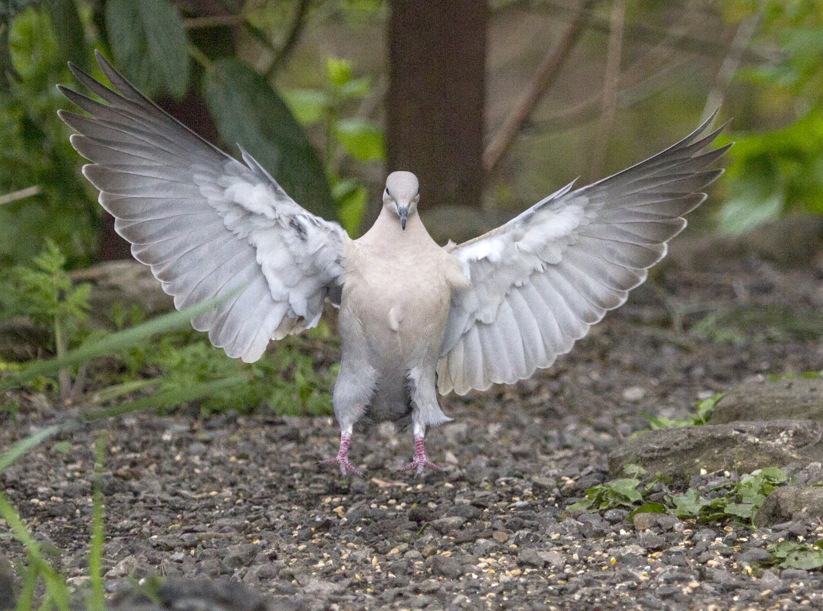 A Collared Dove Streptopelia decaocto lands from flight, displaying the down and flight feathers of its wingspan. Reddish Vale, Reddish, Greater Manchester.